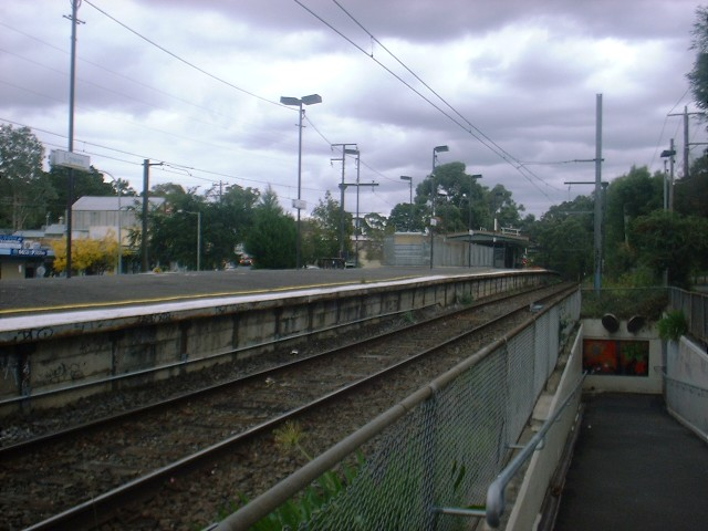 Picture taken myself on 22/4/2006. Anyone can use this image for any reason.